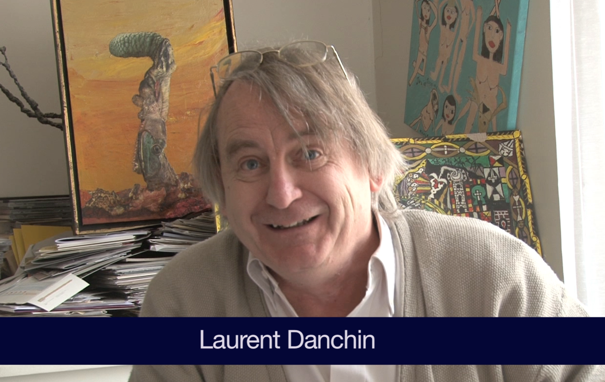 Laurent Danchin photographed during an interview of the artist Patrice Novarina laurentdanchin #patricenovarina #art #artist #outsider